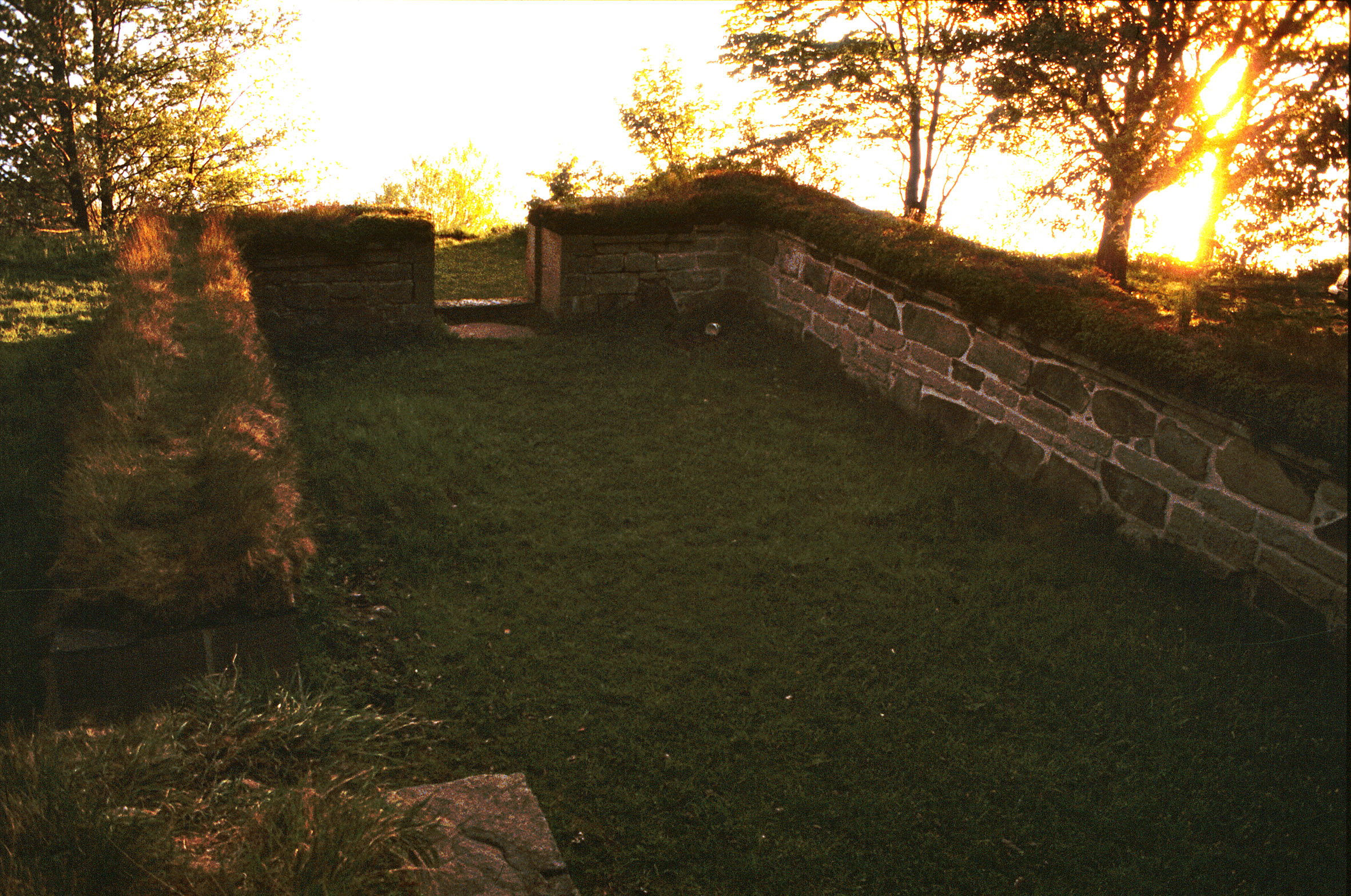 The "King Sverker chapel" near the Alvastra monastery in Sweden.